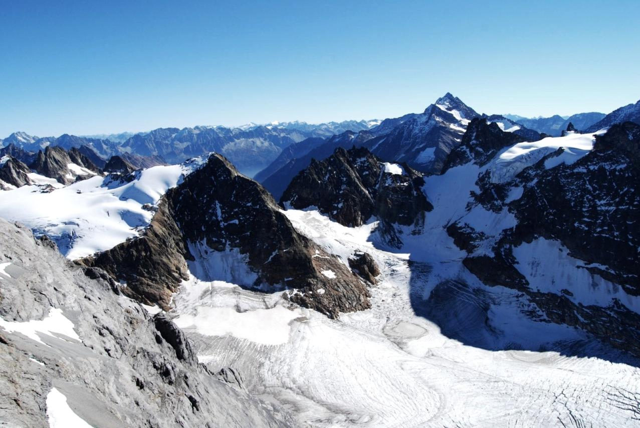 View from Titlis (toward south)